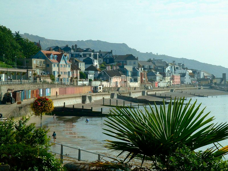 Lyme Regis, England